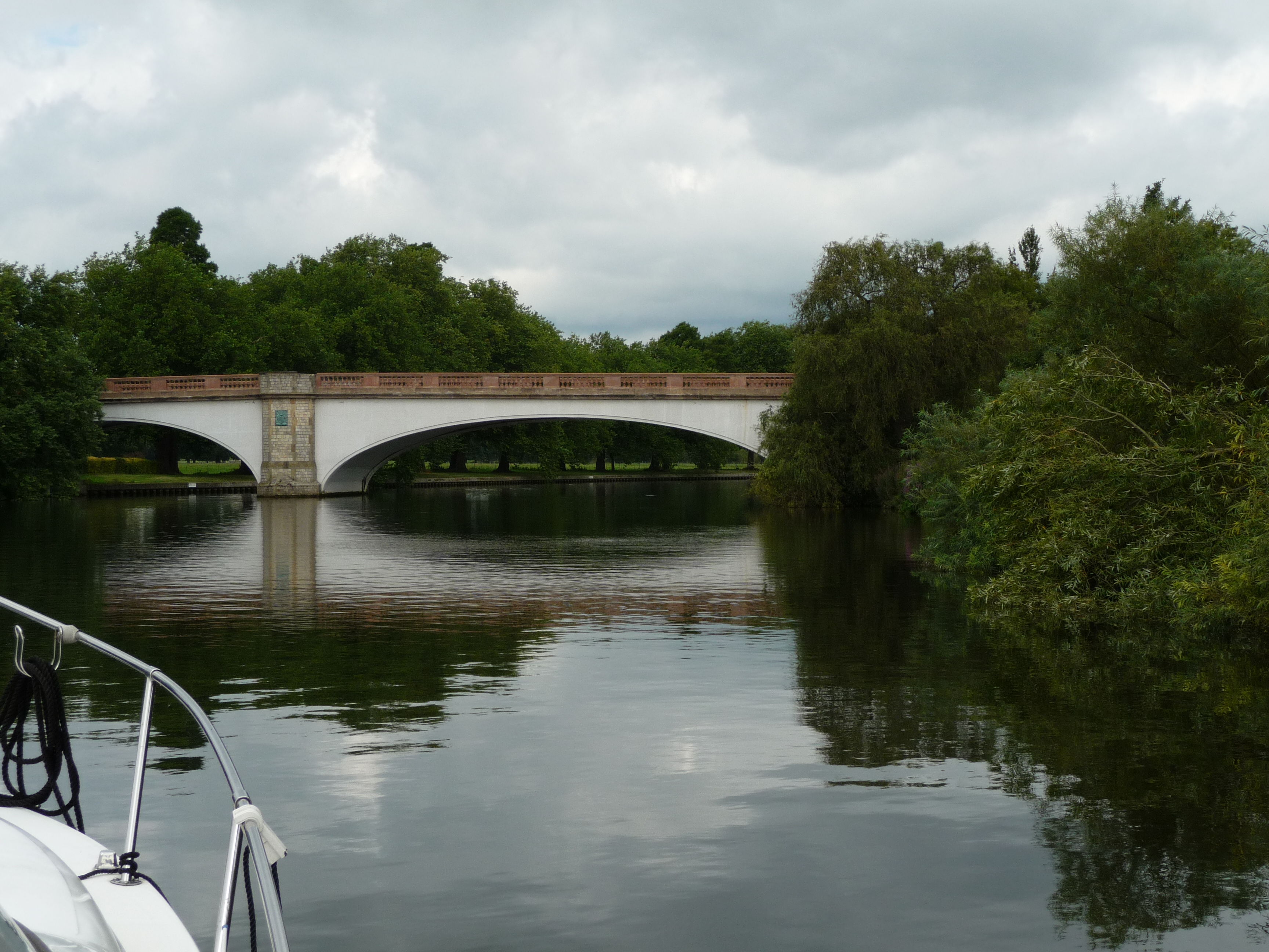 Downstream side of Albert Bridge carrying the B3021 across the River Thames at Datchet, Berkshire